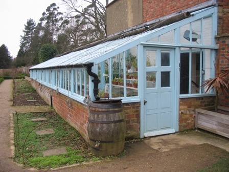 Charles Darwin's greenhouse at Down House, Downe, Greater London where the naturalist conducted many experiments